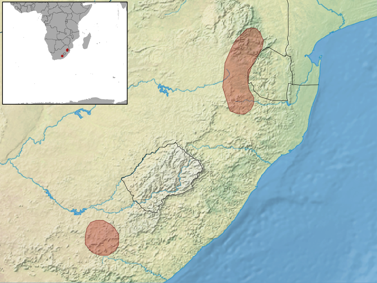 geographic distribution of Acontias breviceps